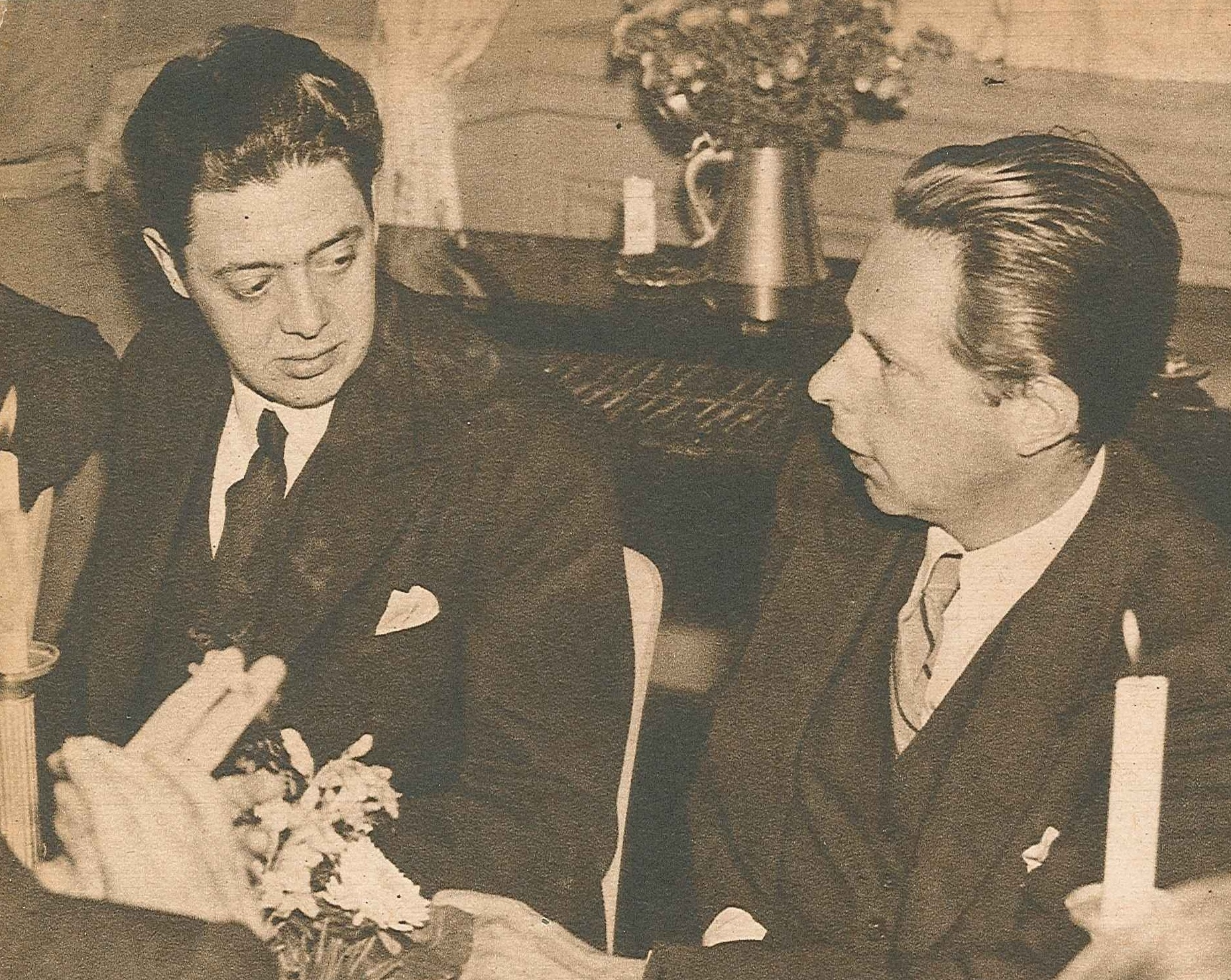 Swedish authors Waldemar Hammenhög (1902-1972) and Gösta Gustaf-Janson (1902-1993).